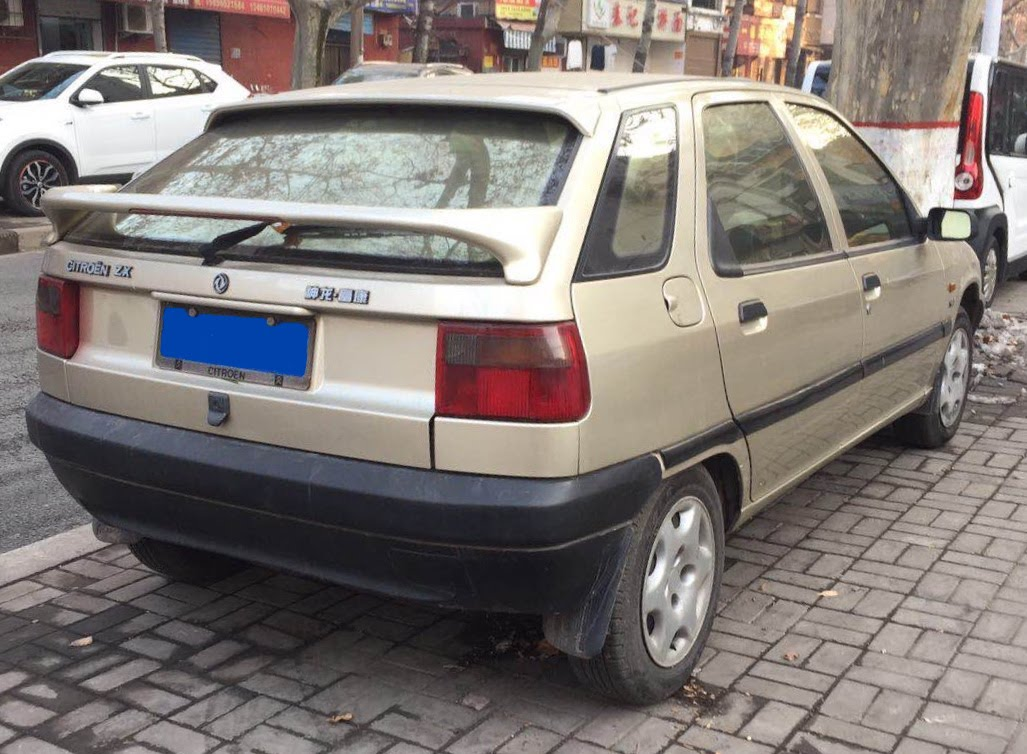 In Henan Province, China.